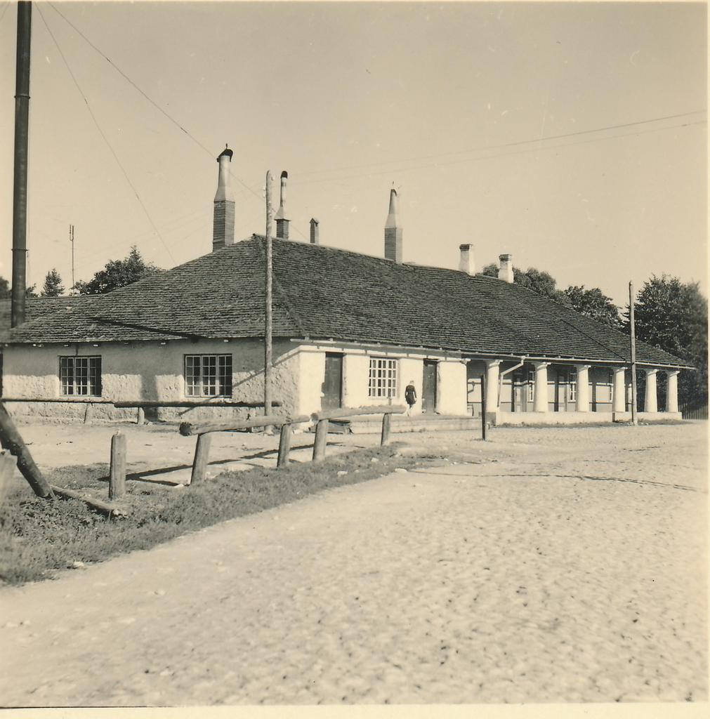 Simuna inn